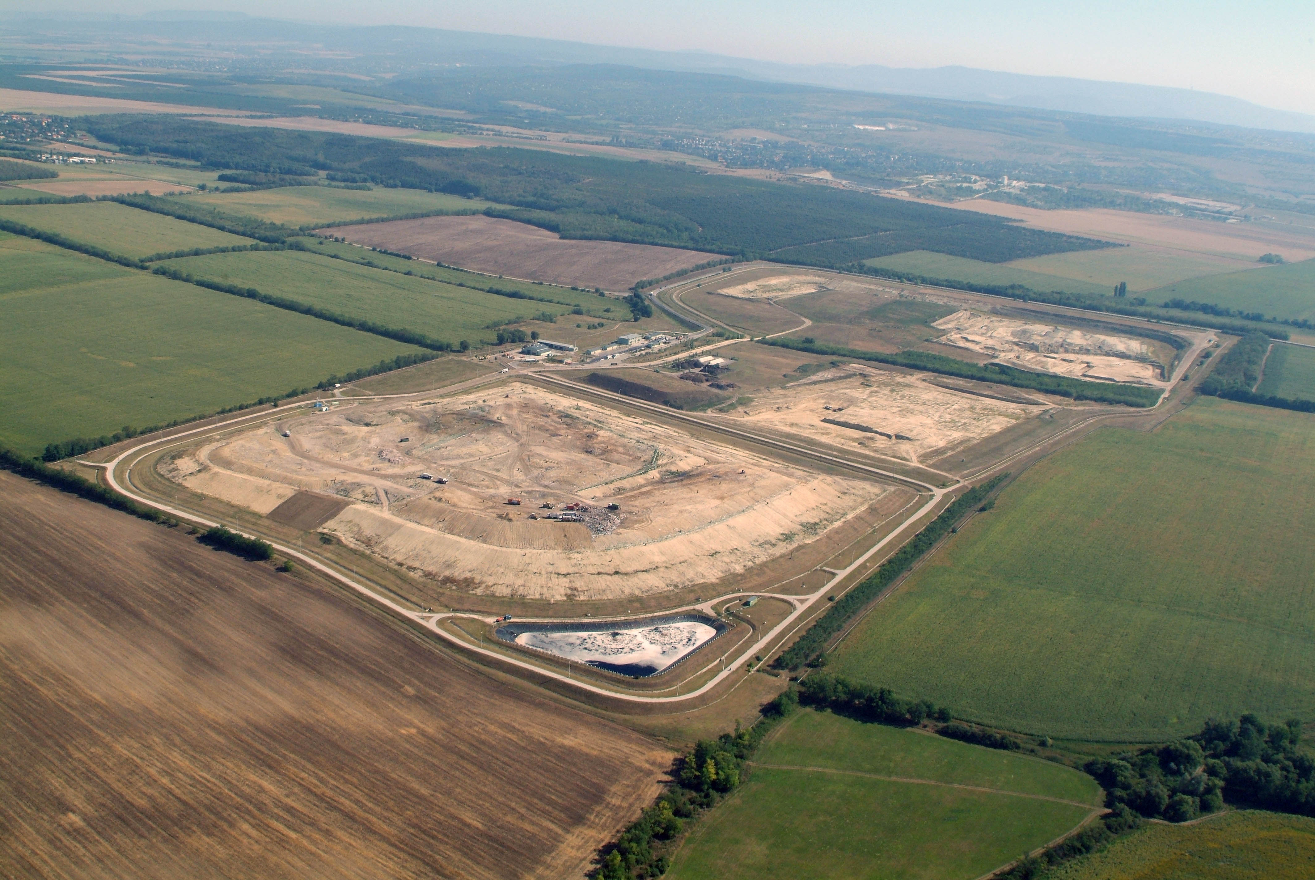 Budapest regional landfill site south of Pusztazámor